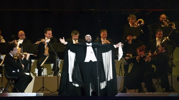 Luciano Pavarotti, opening ceremony of the 2006 Winter Olympics